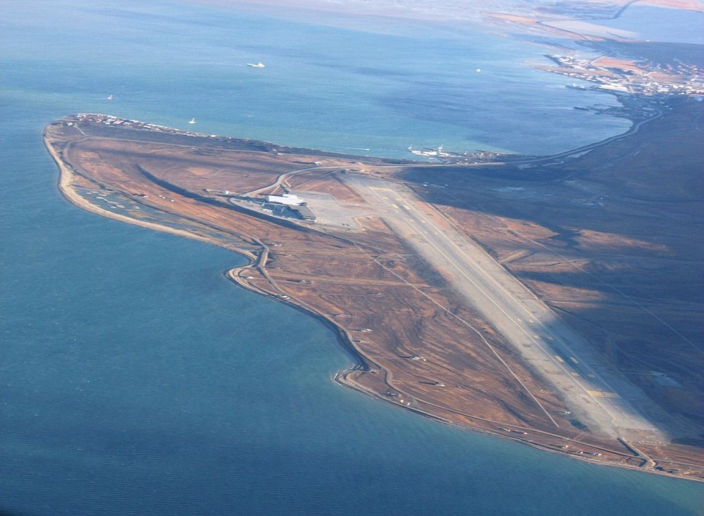 Hotellneset west of Longyearbyen, with the airport.